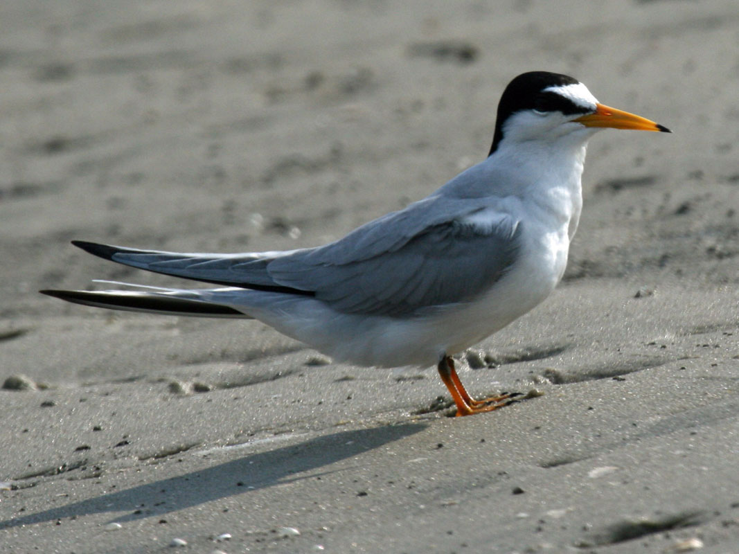 Least Tern (Sternula antillarum) - Sunset Beach, North Carolina